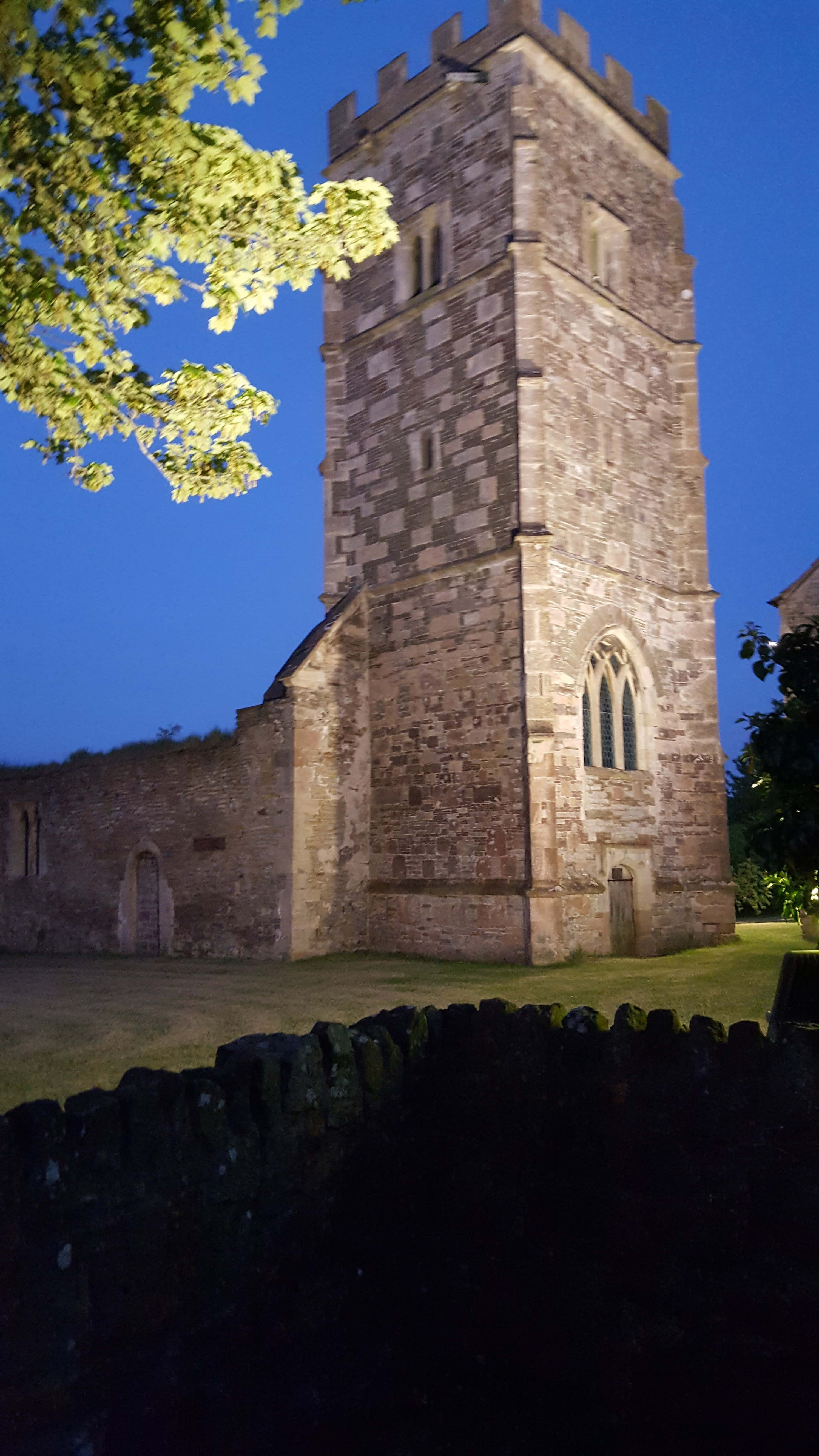 Old Church Farmhouse Wikidata has entry Q26607032 with data related to this item.